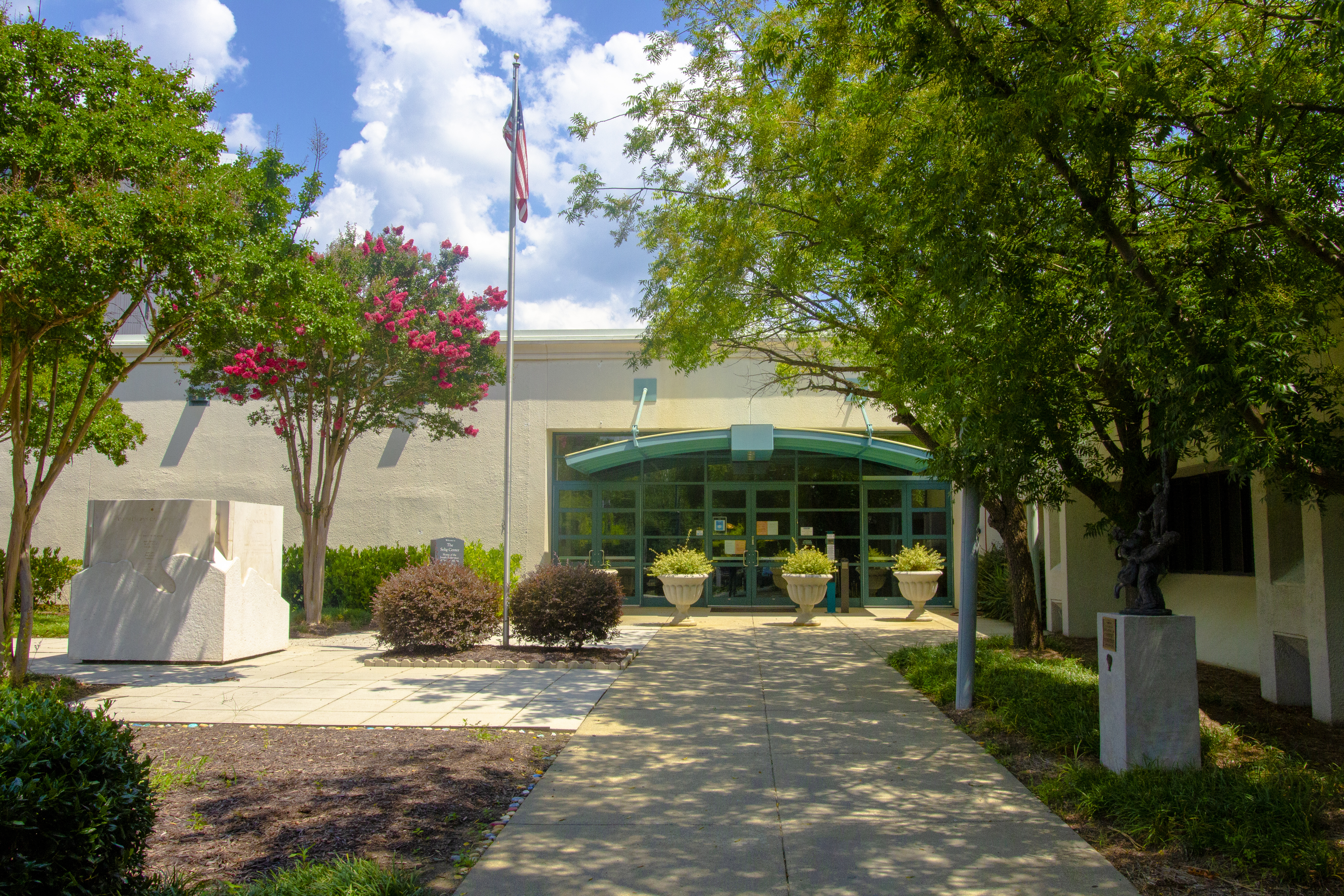 Photograph of front door to The Breman Museum